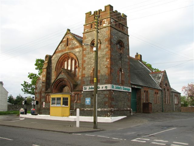 St John's garage. This was the Reformed Presbyterians church